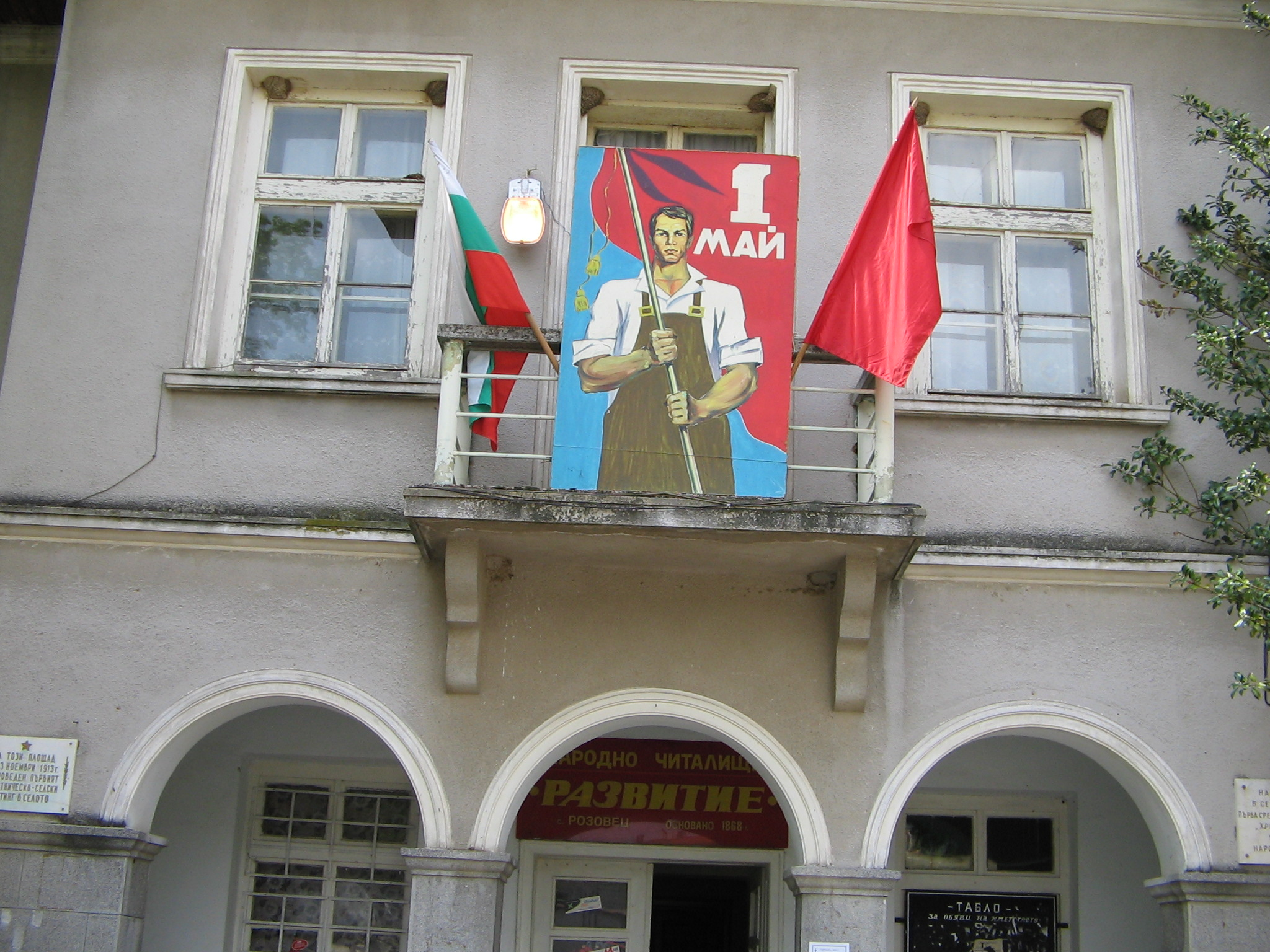 Bulgarian village of Rozovets. Festive decoration on the library on the occasion of 1 May 2006.